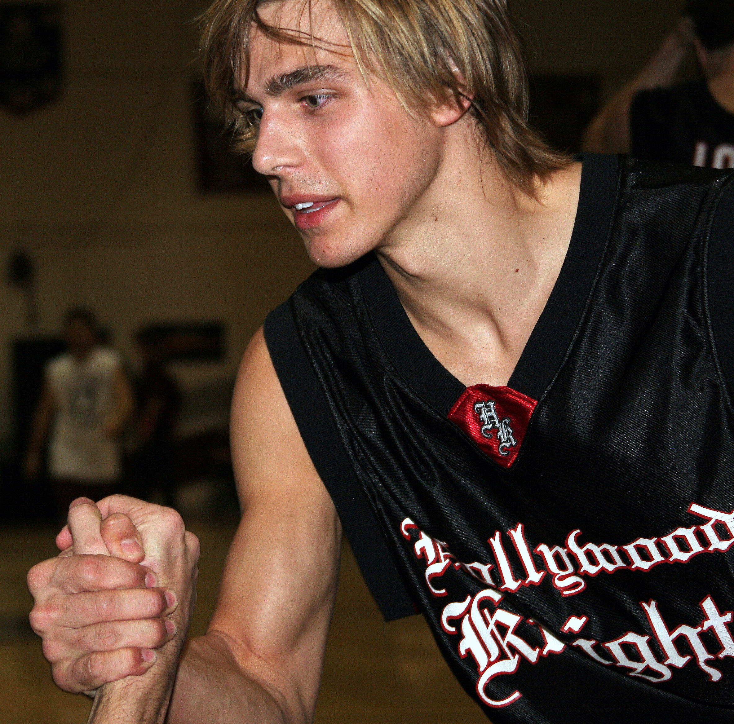 Cody Linley lends a hand to a fallen teammate during the Hollywood Knights basketball game in Claremont, California on January 30, 2010.